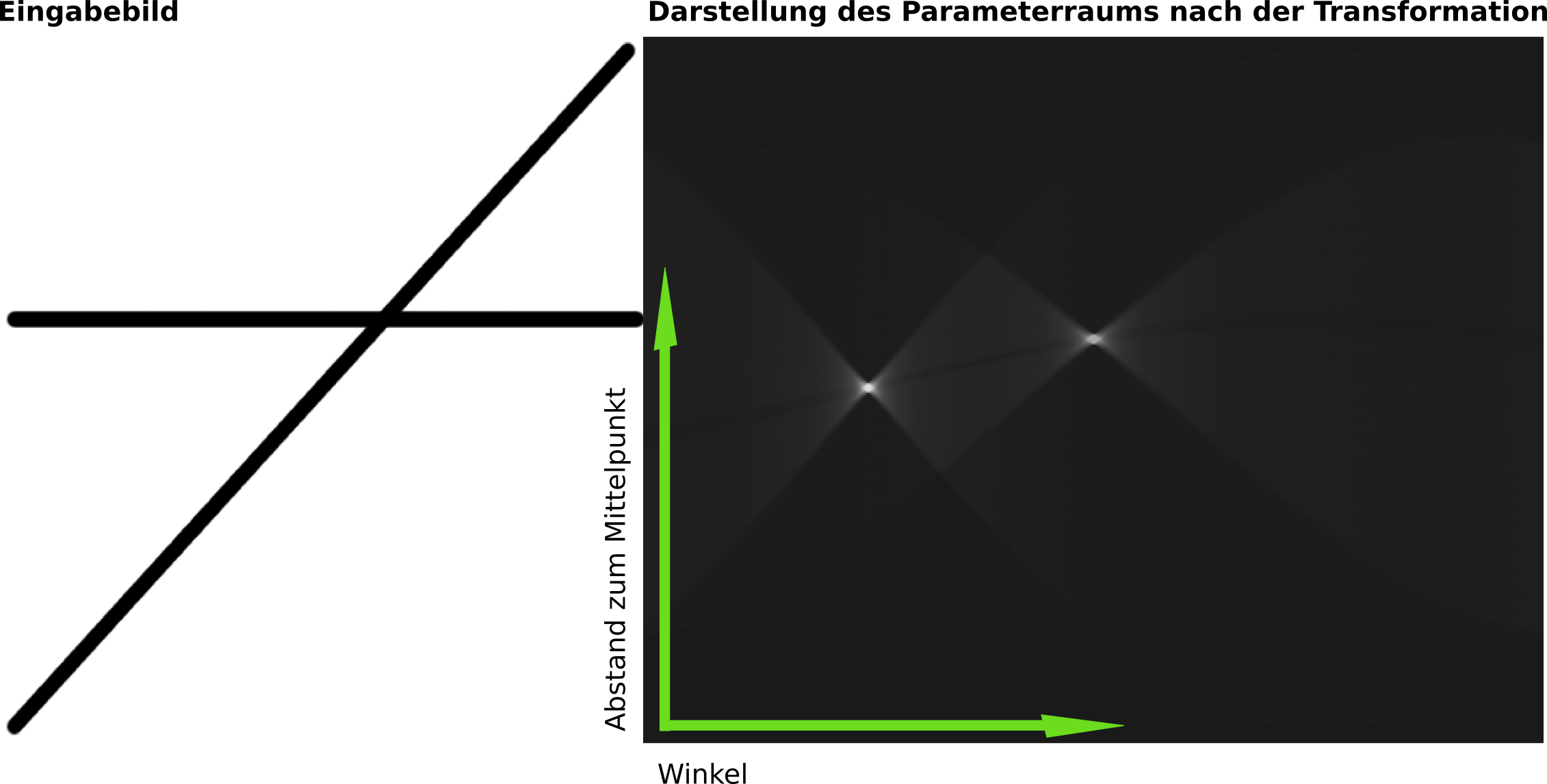 Hough Transform, example results